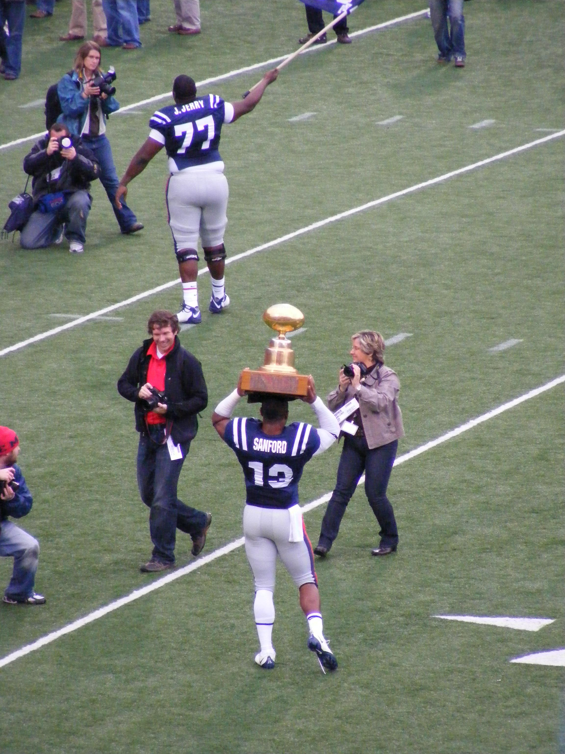 Ole Miss wins the 2008 Egg Bowl. Jamarca Sanford carries the Egg Bowl trophy while John Jerry waves an Ole Miss flag.